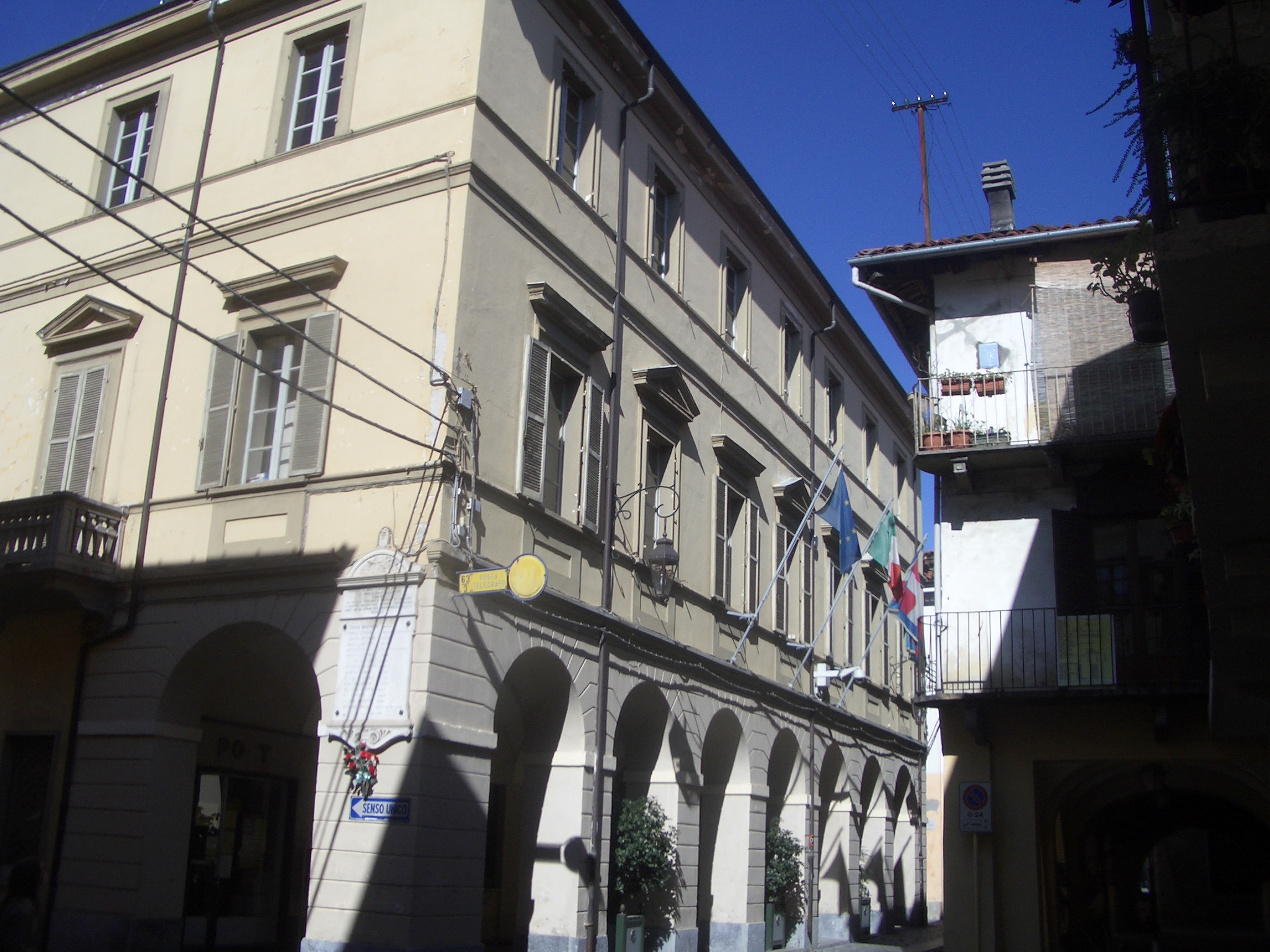 Agliè, The Town-Hall